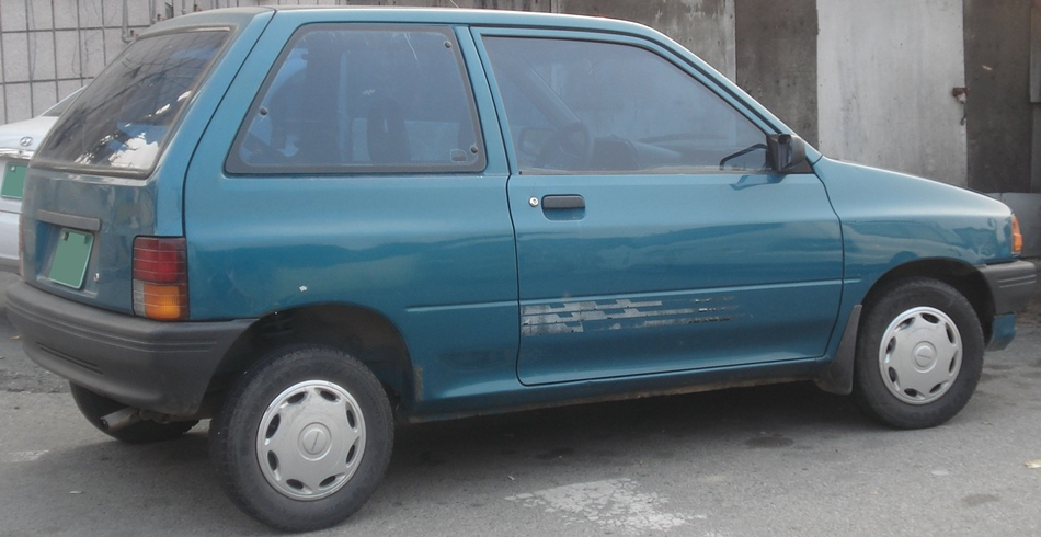 Kia Pride